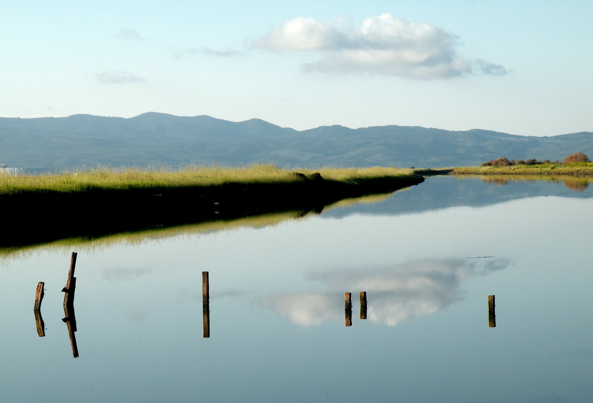 This is a photography of Natura 2000 protected area with ID GR4110004